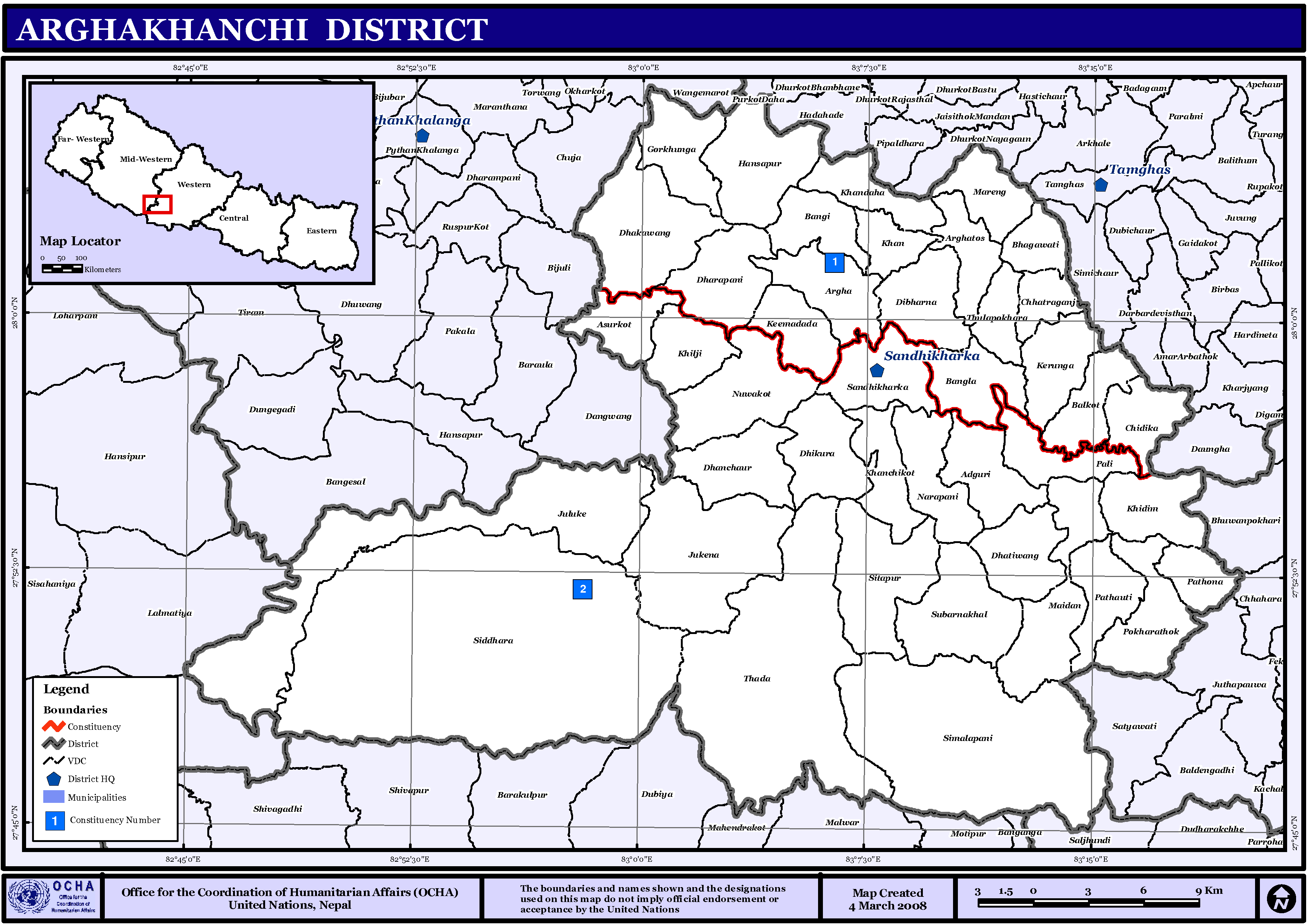 Map displaying Village Development Committees in Arghakhanchi District, Nepal